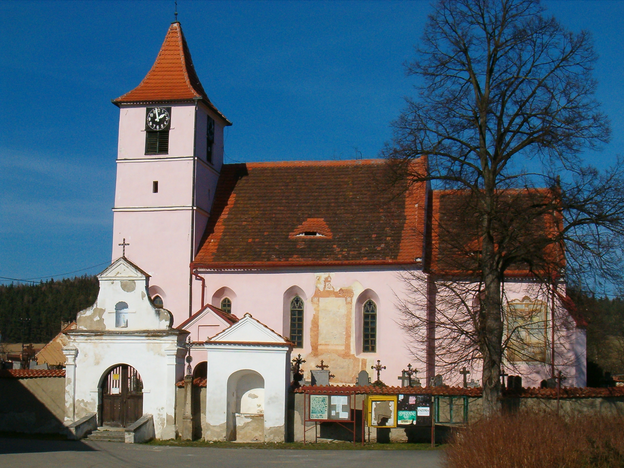 St James the Great Church in Bílsko village, Strakonice District, Czech Republic.